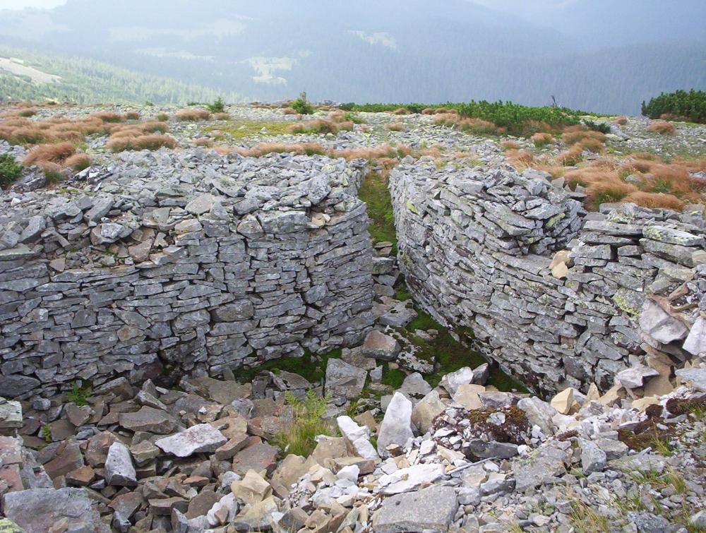 Trenches under Syvulia.